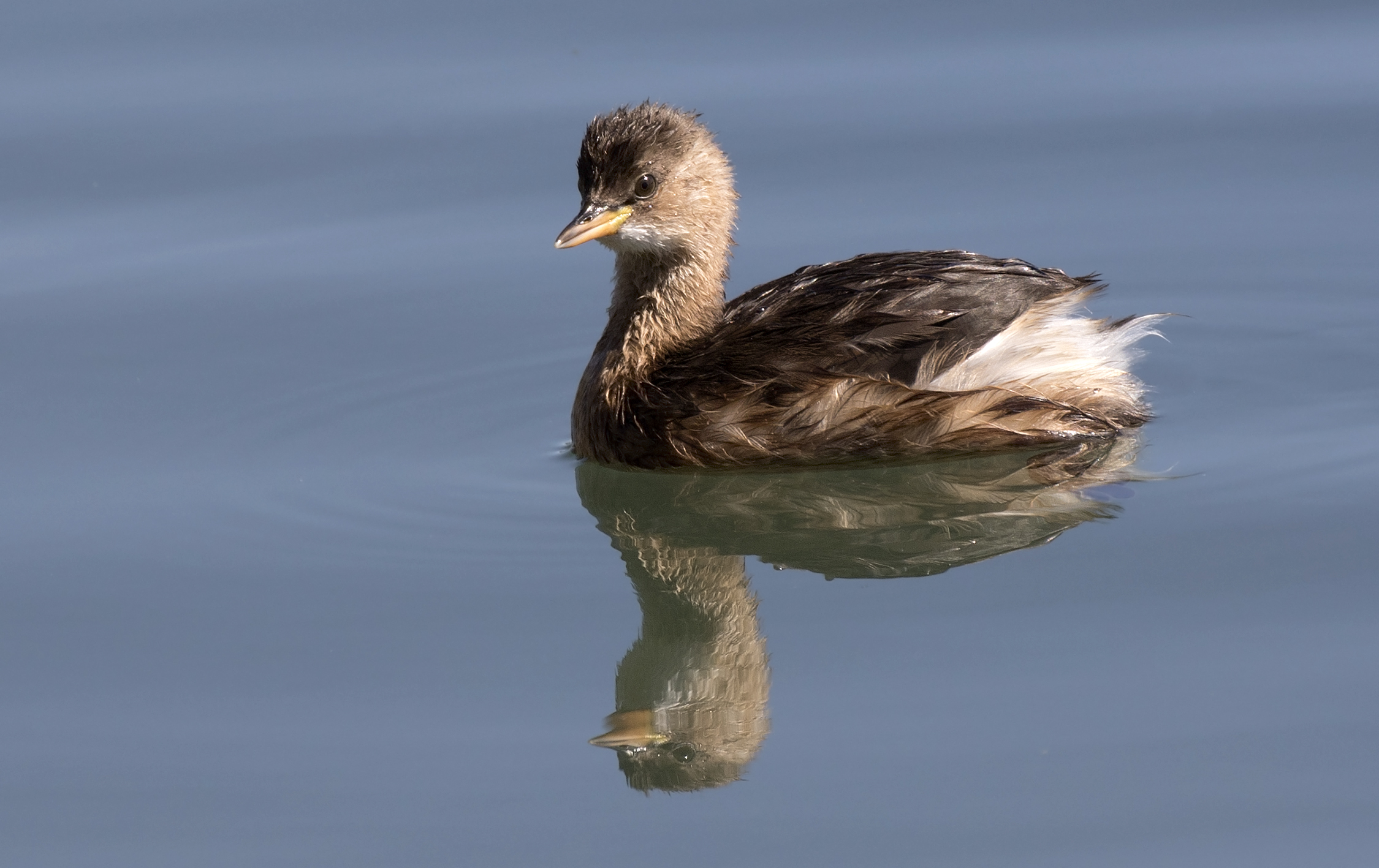 Little Grebe (Tachybaptus ruficollis). Eskibaraj Dam Lake, Seyhan - Adana, Turkey.